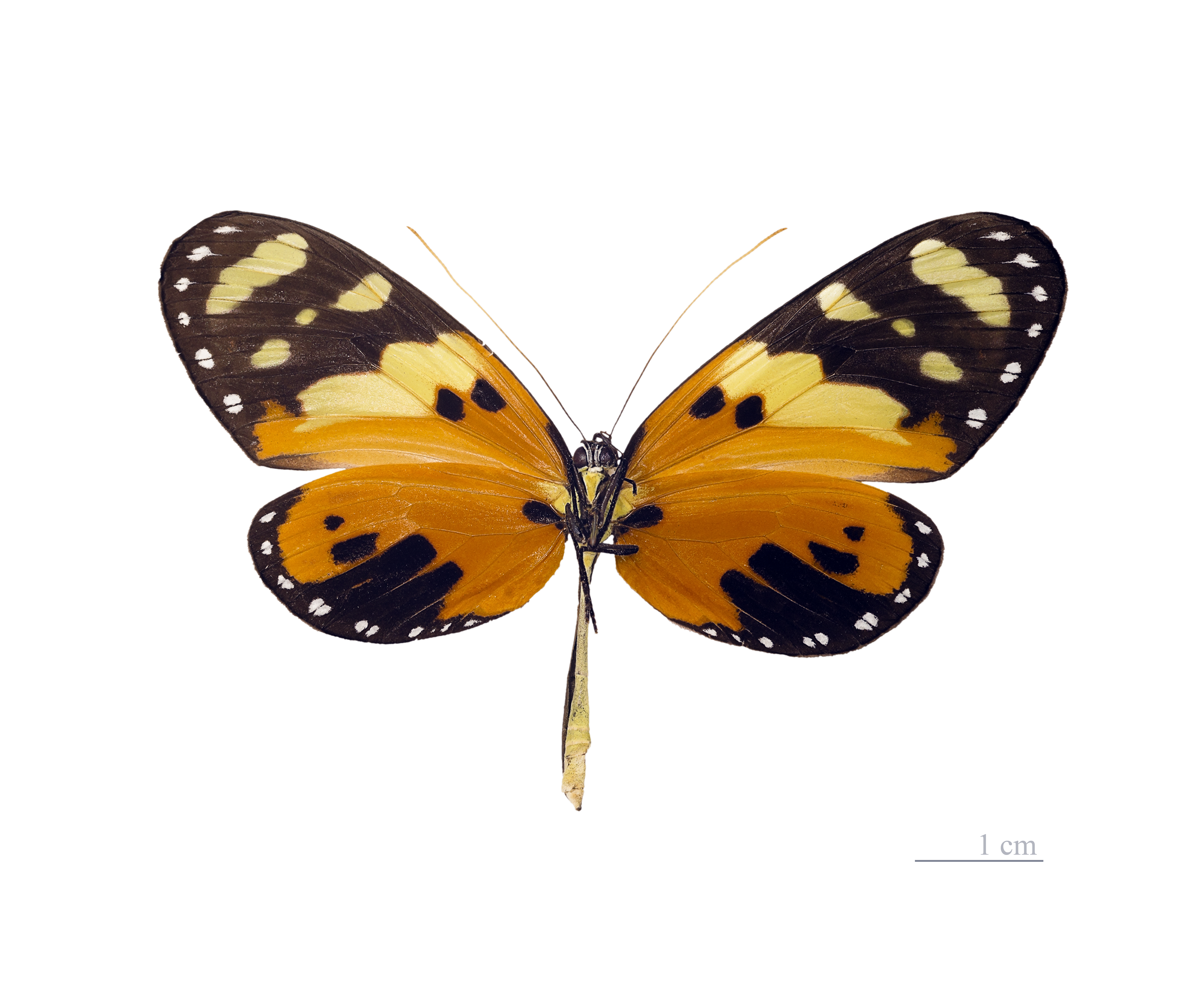 ♀ - △ Ventral side Locality: Santarém Pará, Brazil.